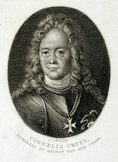 Dutch (origin from Norway) Admiral Cornelius Cruys (Cornelis Cruijs) (1655 - 1727), in the service of Peter the Great, compiled and published an atlas of the River Don and the Sea of Asov.